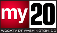 WDCA Logo, May 5, 2006 to June 2006